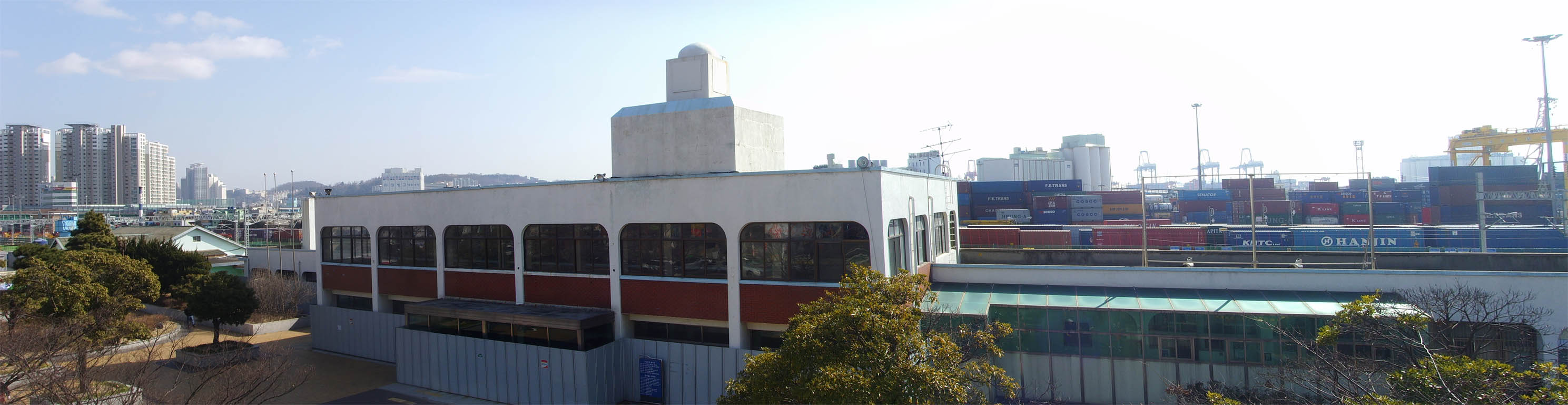 Busanjin Station (Gyeongbu, Donghaenambu Line)